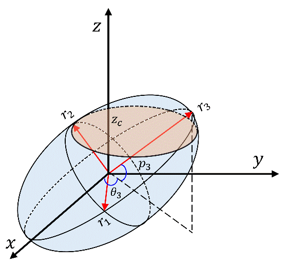 Illustration of an ellipsoid with three principal axes and intersected by a horizontal plane parallel with XY plane